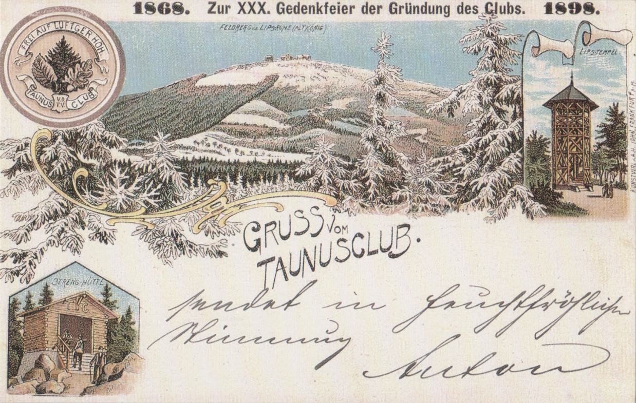 Old postal card of the Feldberg from the "Taunusklub